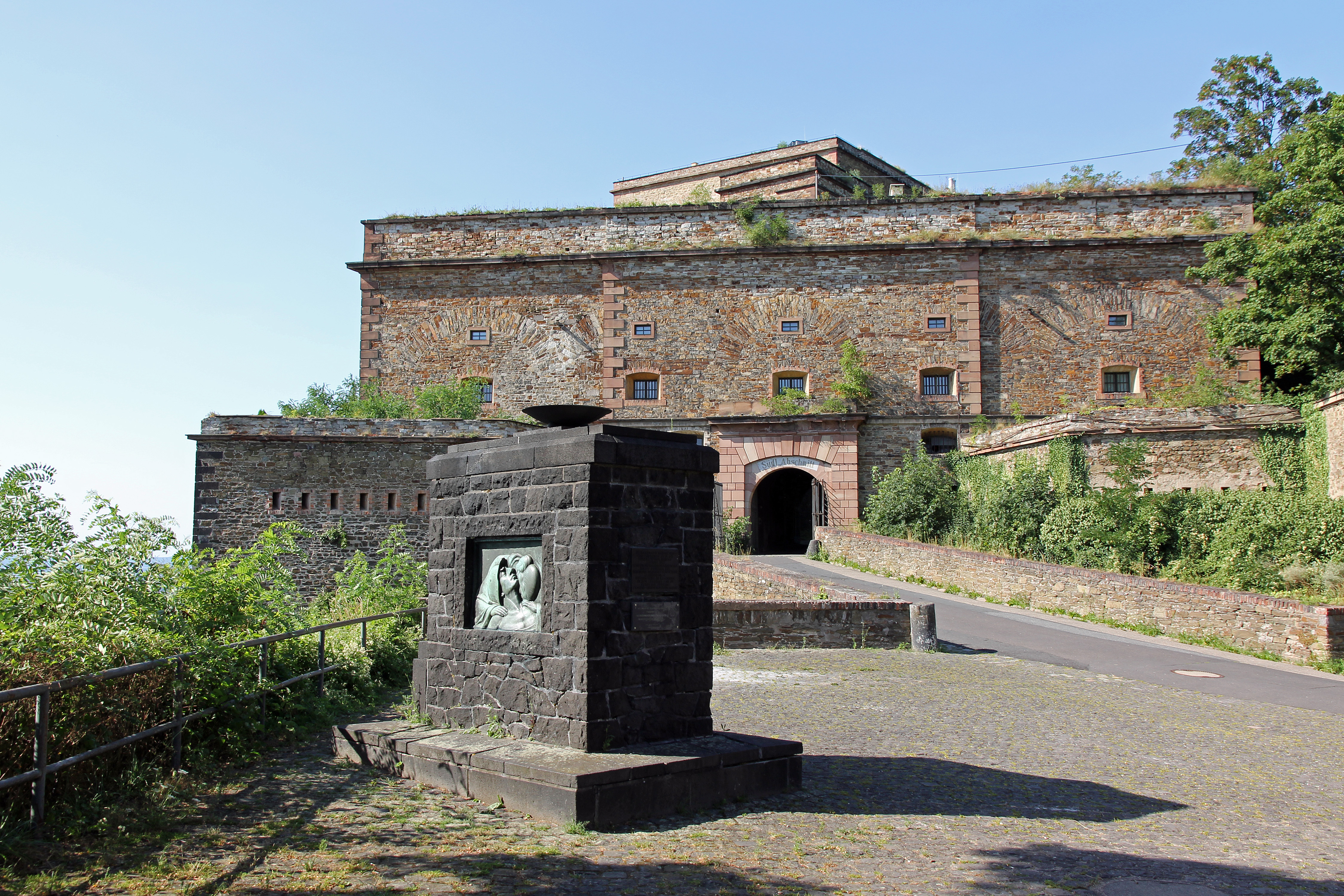 War memorial in Koblenz